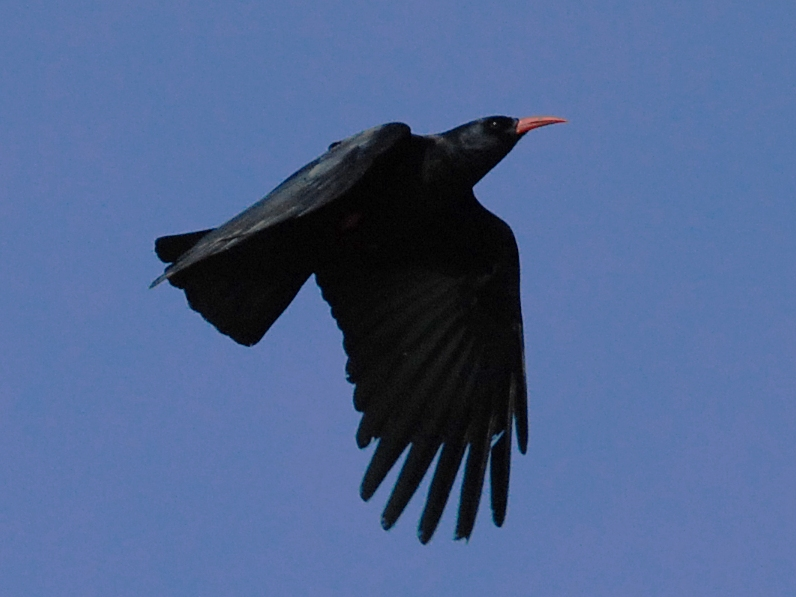 Red-billed Chough flying in Penwith, Cornwall, England.